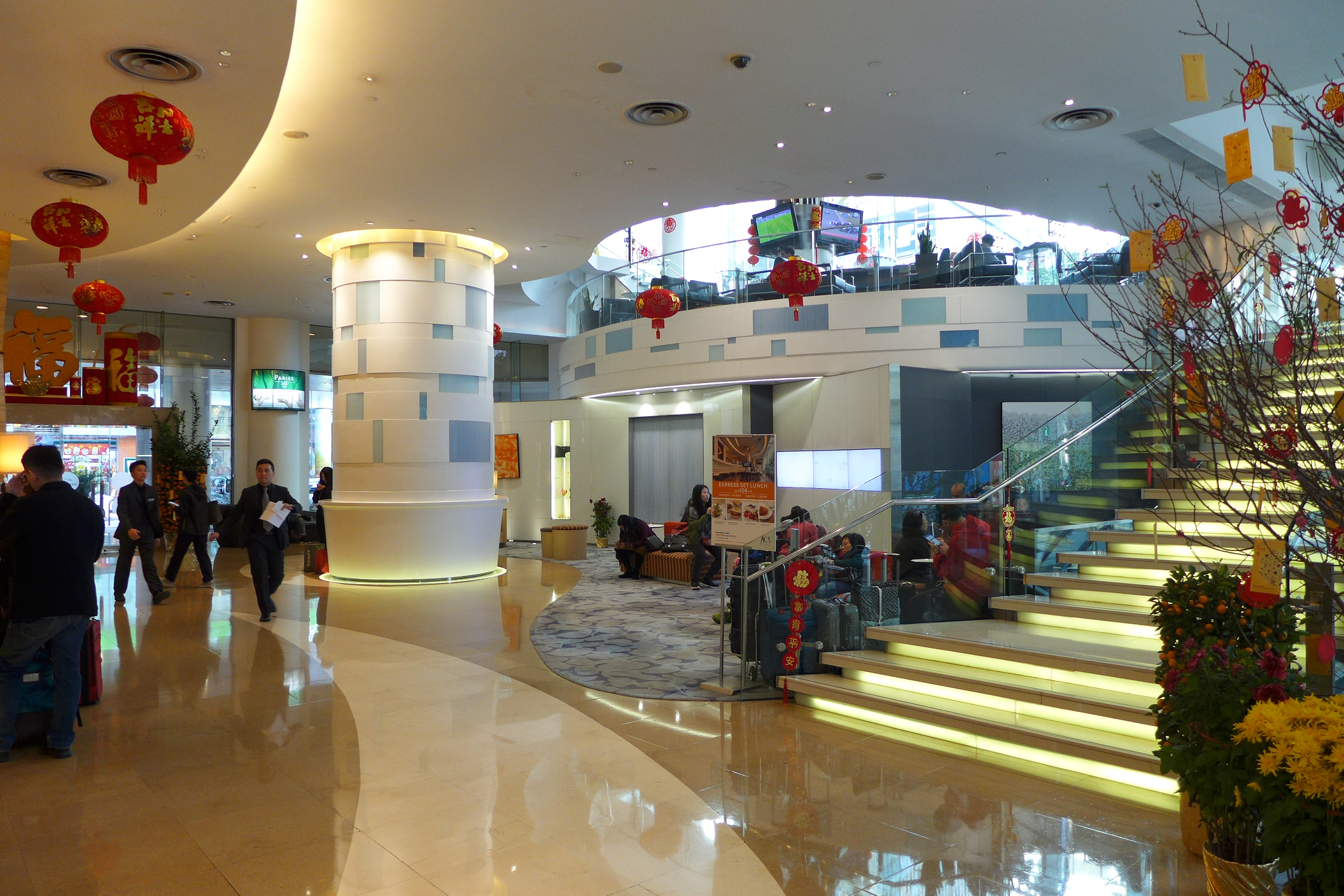 Novotel Century Hong Kong Lobby